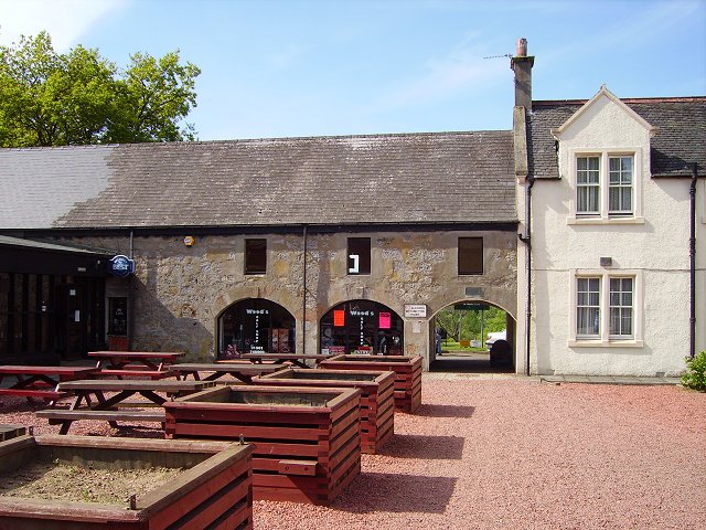 Polkemmet Country Park, former stable block of Polkemmet House. Near Whitburn, West Lothian, Scotland.